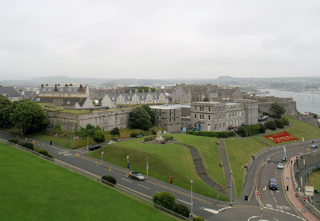 The Citadel, Plymouth The western view of the Citadel from the balcony of Smeaton's Tower. Behind to the right is the Cattewater.